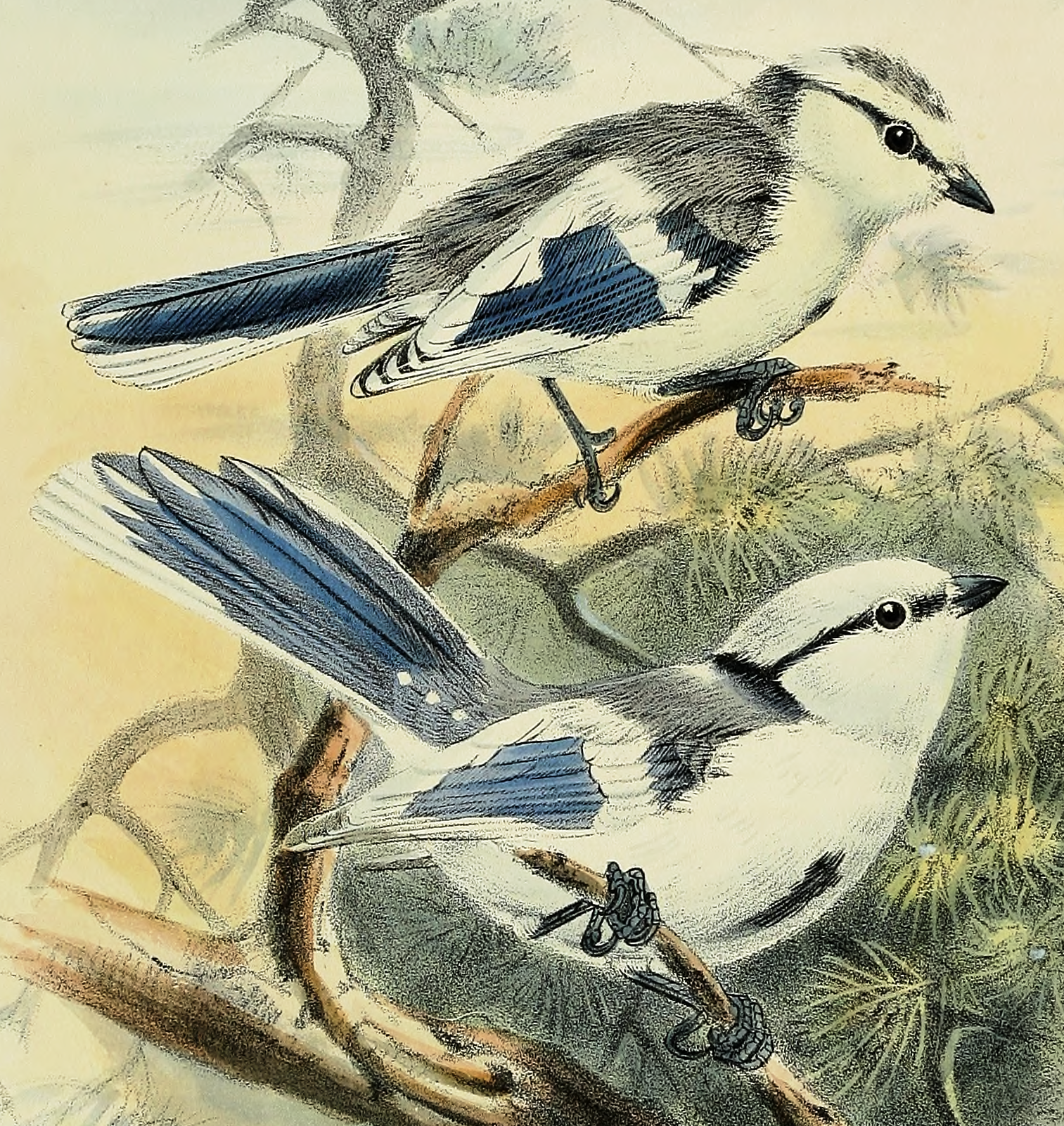 Parus cyanus. Dresser